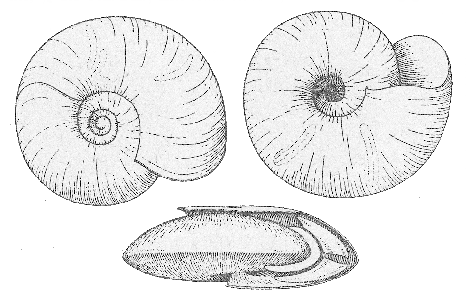 Segmentina nitida; Freshwater pulmonate snail